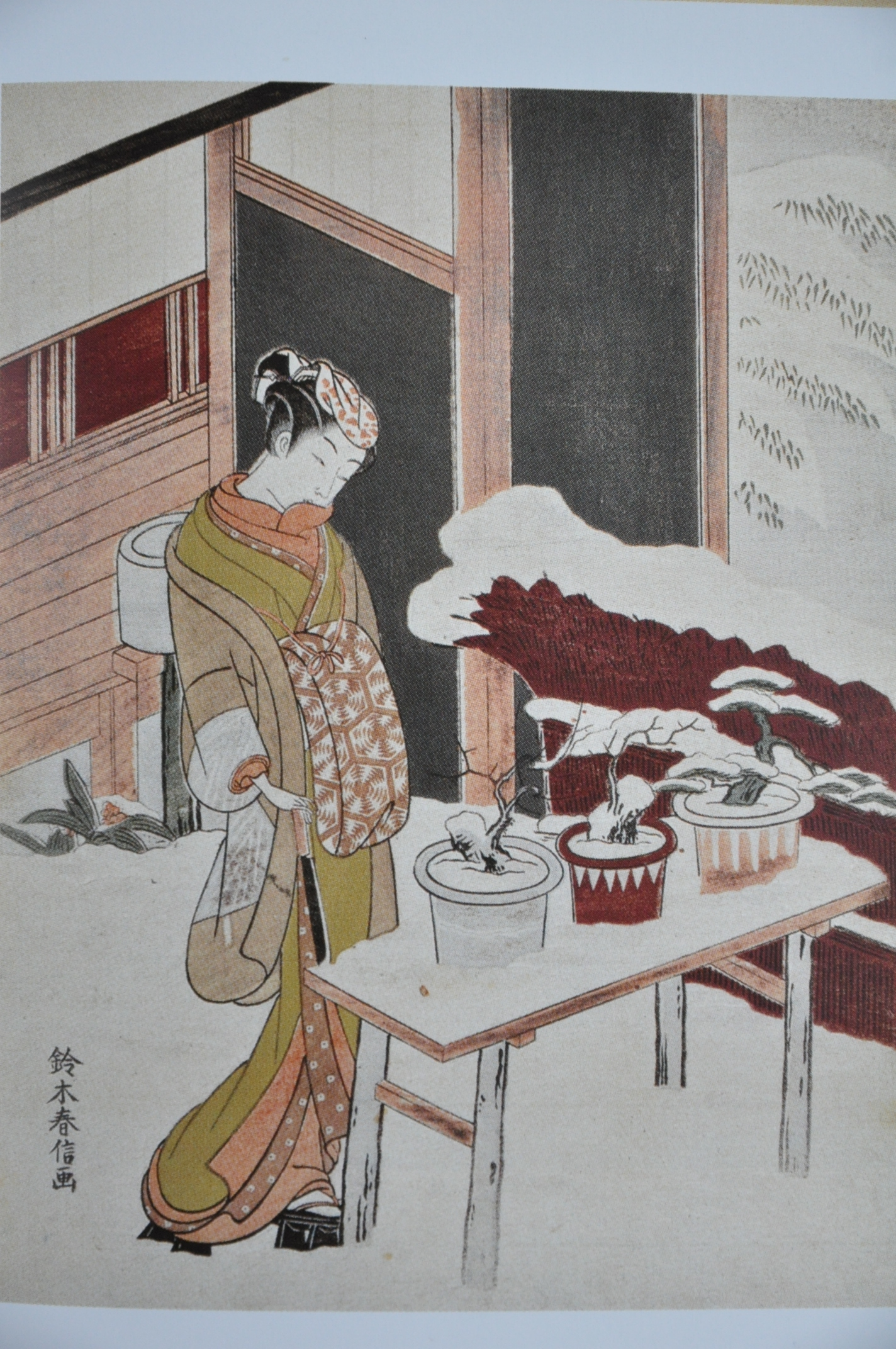 Suzuki Harunobu, chûban nishiki-e, 1766-1767 : Mitate of the potted trees (Hachi no ki), from a Nô play.